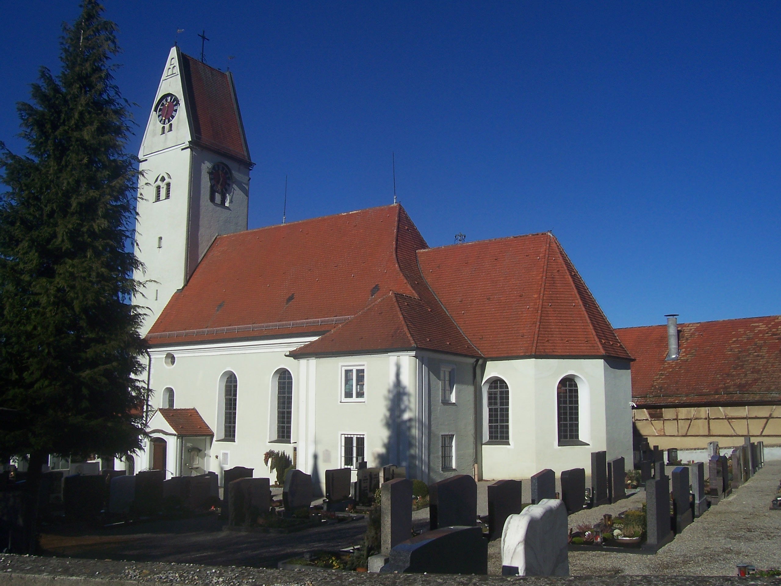 Kirche St. Martin